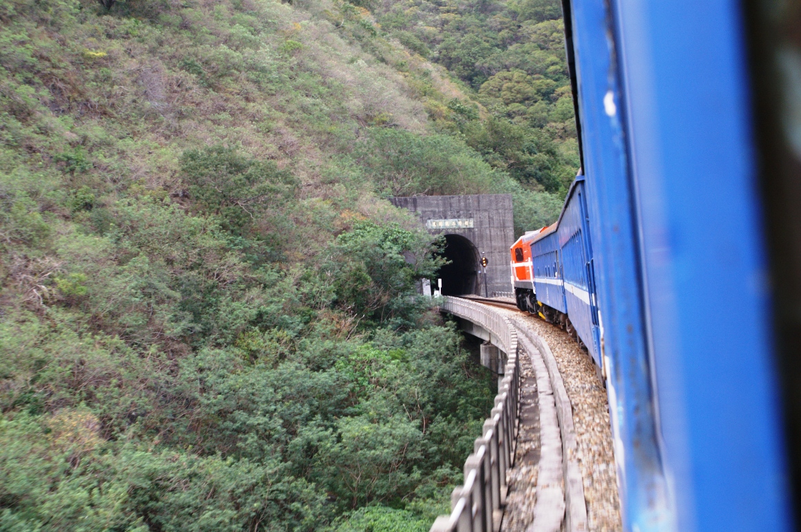 Fangye No.2 Railway Tunnel.(South Link Line) 枋野二號隧道,354次普通車